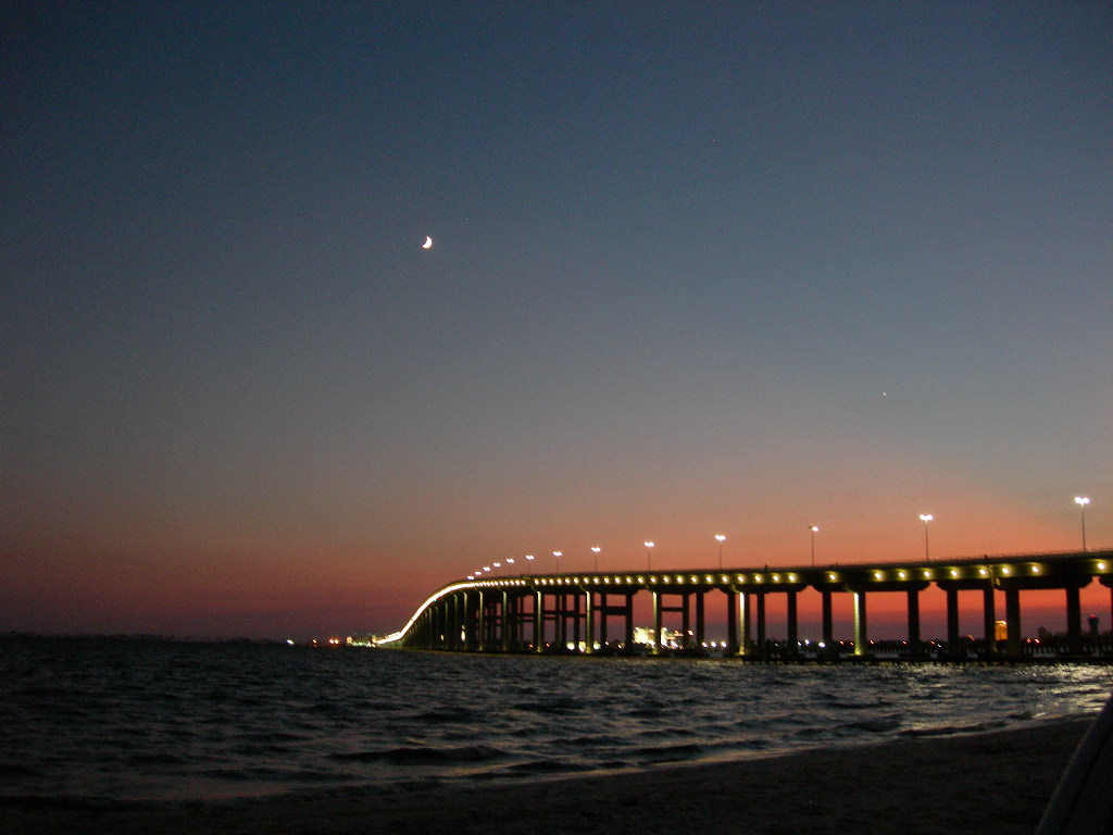 New Ocean Springs Bridge - from Ocean Springs Mississippi to Biloxi.